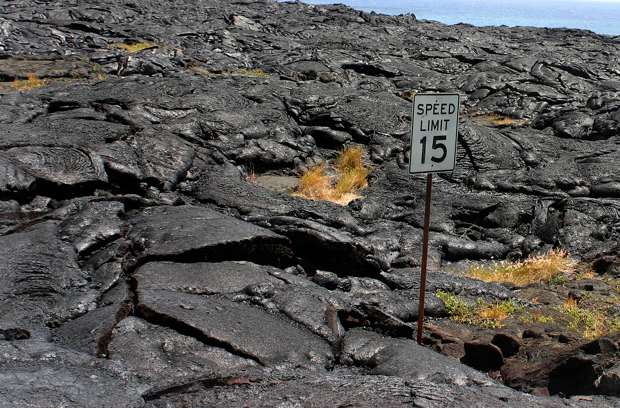 The road was covered by lava flow at the Big Island of Hawaii